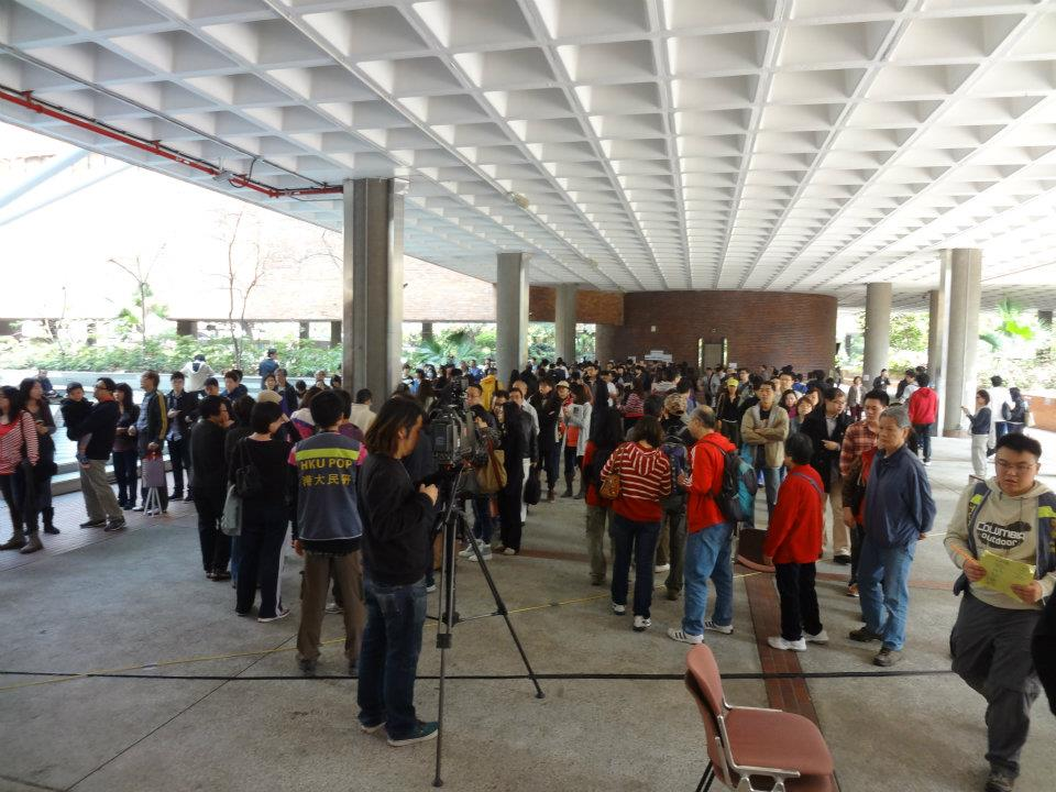 HKU POPVOTE in HK PolyU